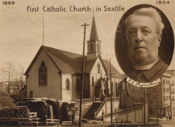 Father Francis Xavier Prefontaine and the Our Lady of Good Help Church in Seattle, Washington. The church was built by Father Prefontaine beginning in 1869, and became the first Catholic Church in Seattle. By 1882, the church had become too small to accommodate the nearly 300 parishioners. Fr. Prefontaine remodeled the church, which continued to serve as a central base for the priests traveling to missions in the Puget Sound area. In 1905 the church was demolished and rebuilt on a new site. Fr. Prefontaine died in 1909.